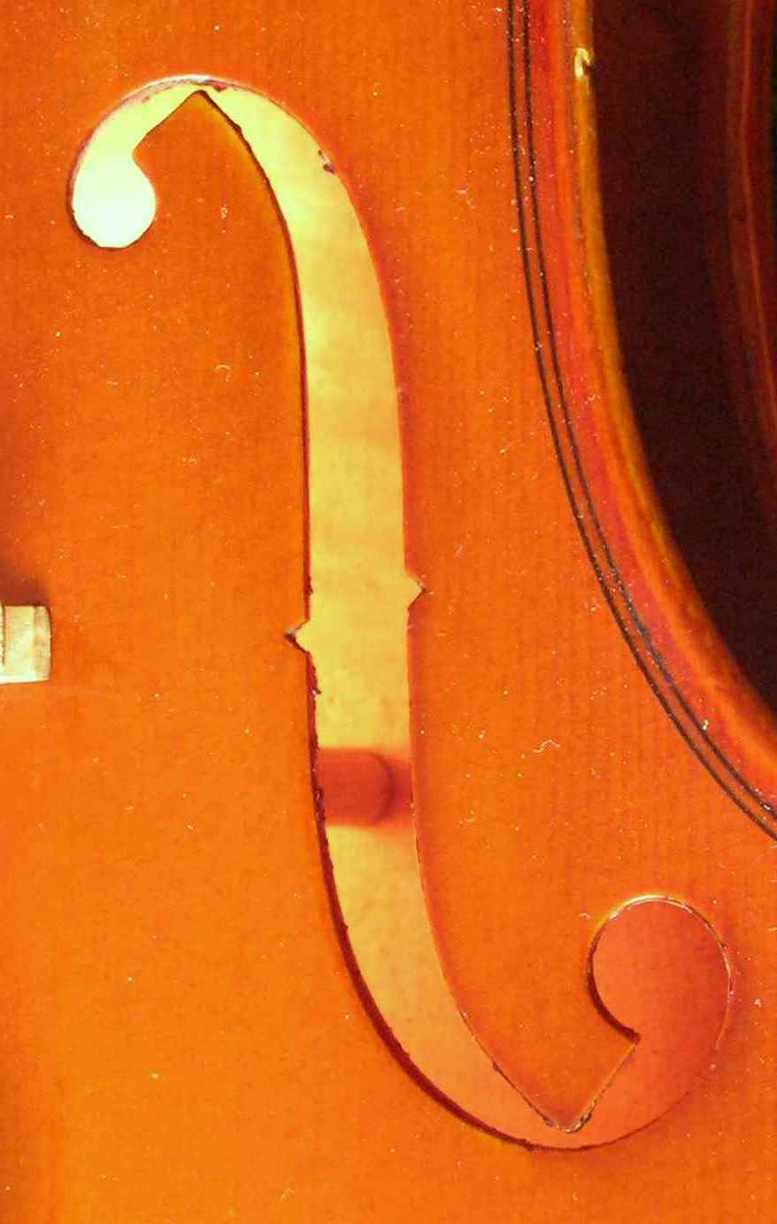 A violin F-hole, soundpost; inside lit